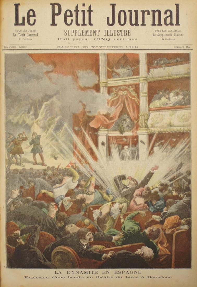 Explosion of the Opera theater of the Liceu of Barcelona by the anarchist Santiago Salvador Franch in the cover of the newspaper Le Petit Journal, 25 Nov 1893.